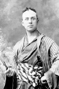 Charles Kenningham as Nanki-Poo in The Mikado (1895)